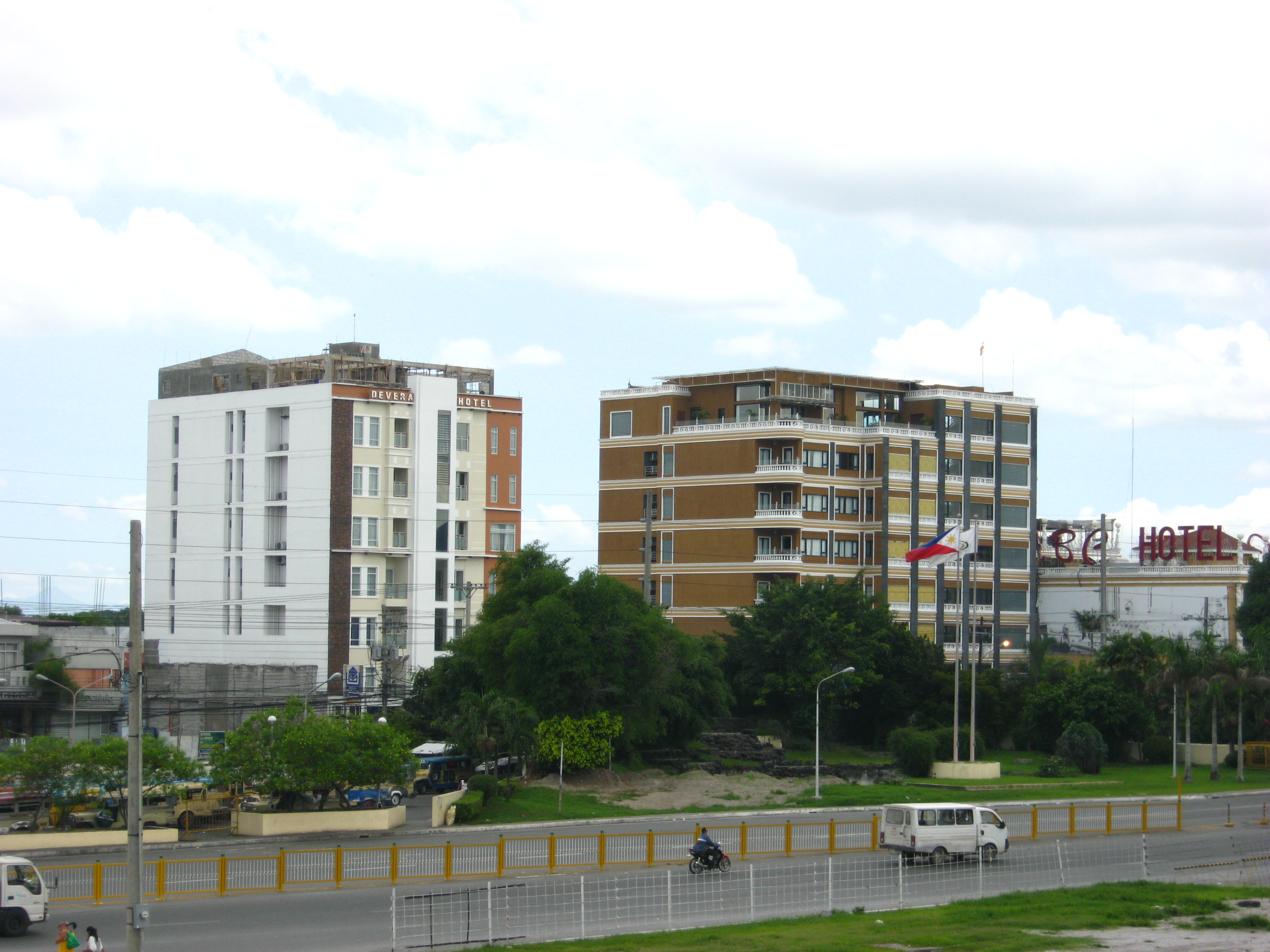 Hotels at Barangay Malabanias, Angeles City, Pampanga, Philippines